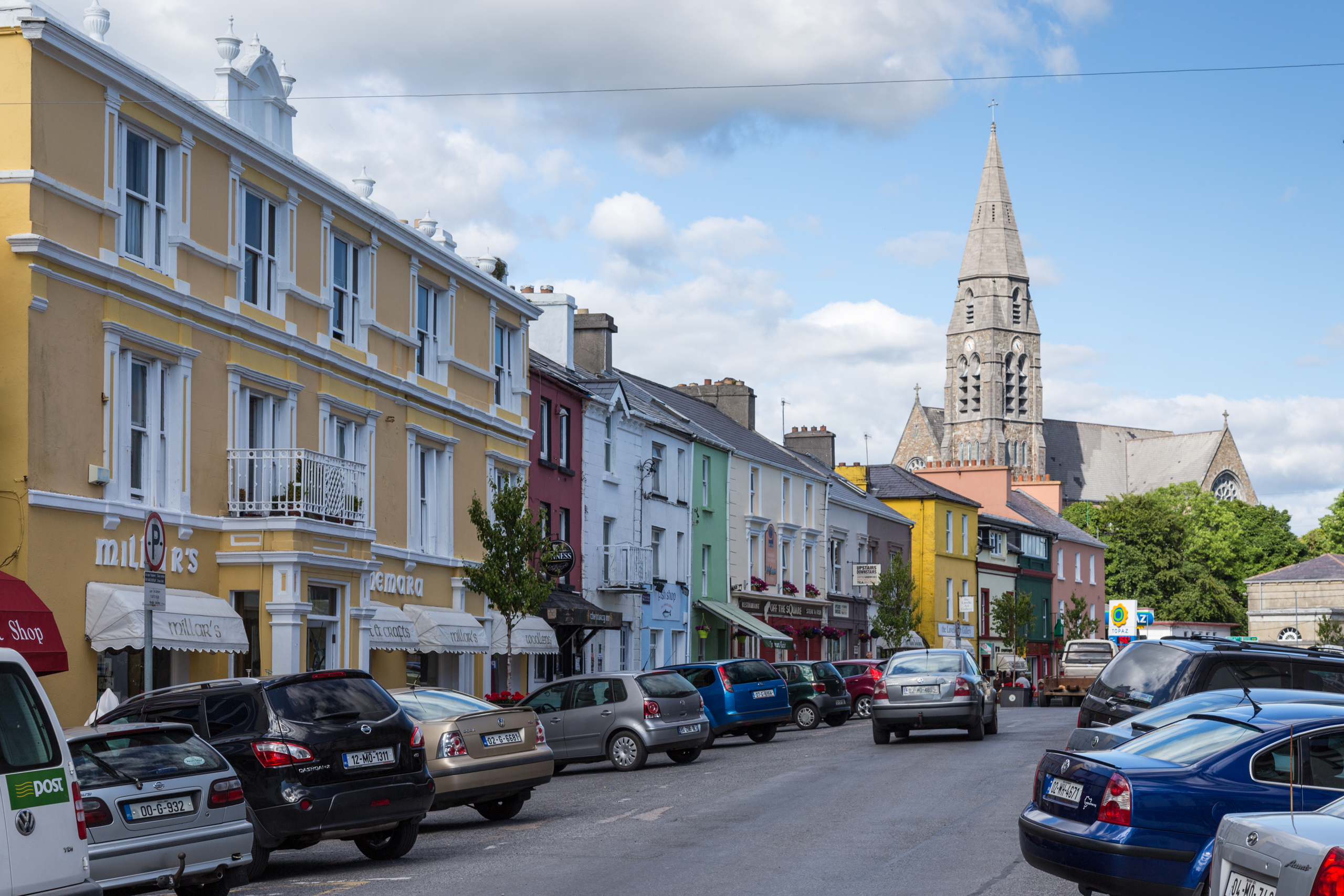 Clifden, Main Street and Saint Joseph's Church